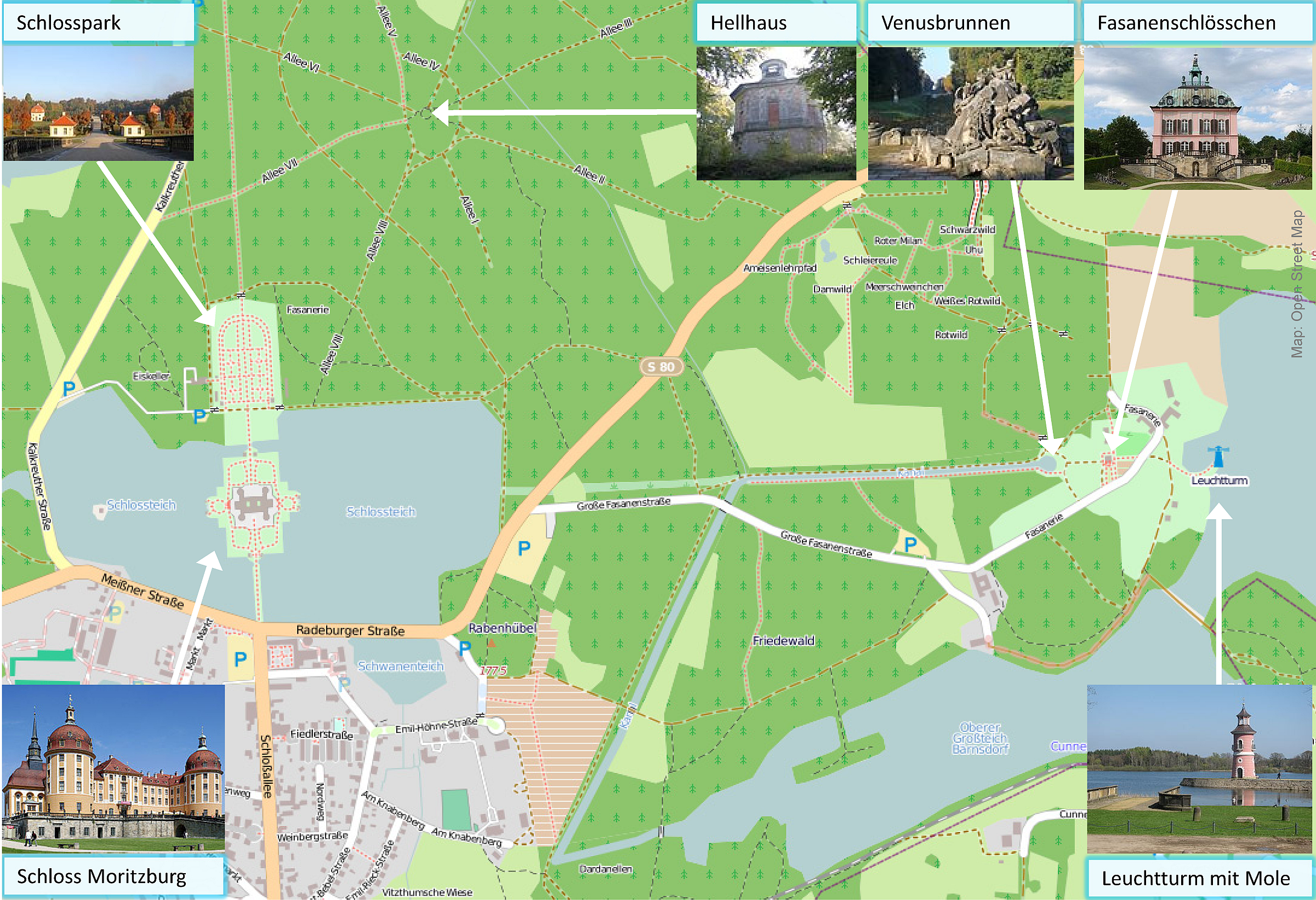 Map of area surrounding Moritzburg Castle with main attractions (German)